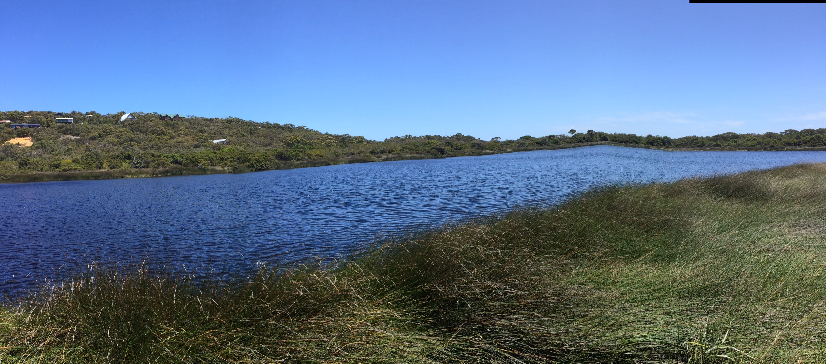 Lake Vancouver panoramic from bird hide